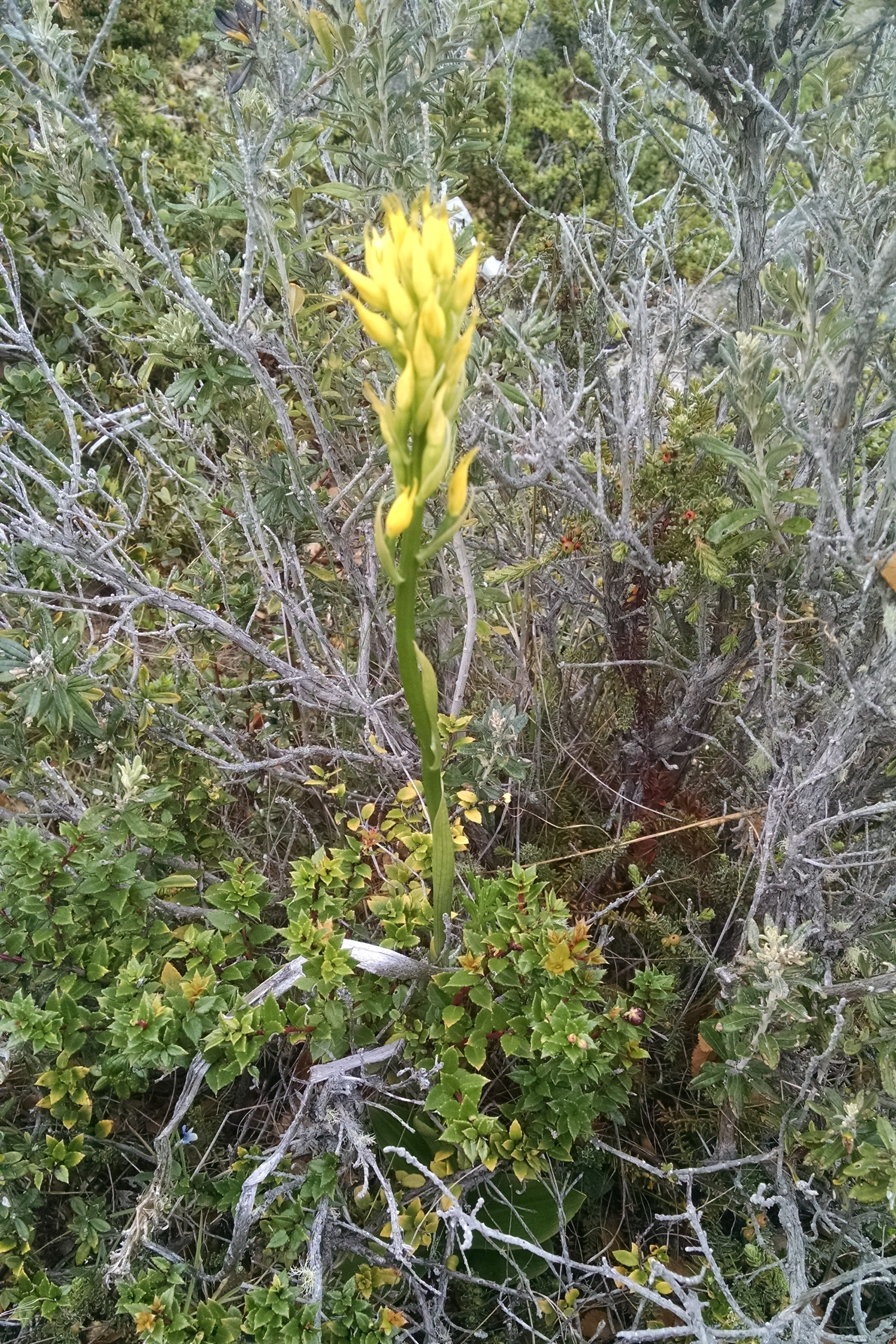 Gavilea Lutea en Ushuaia